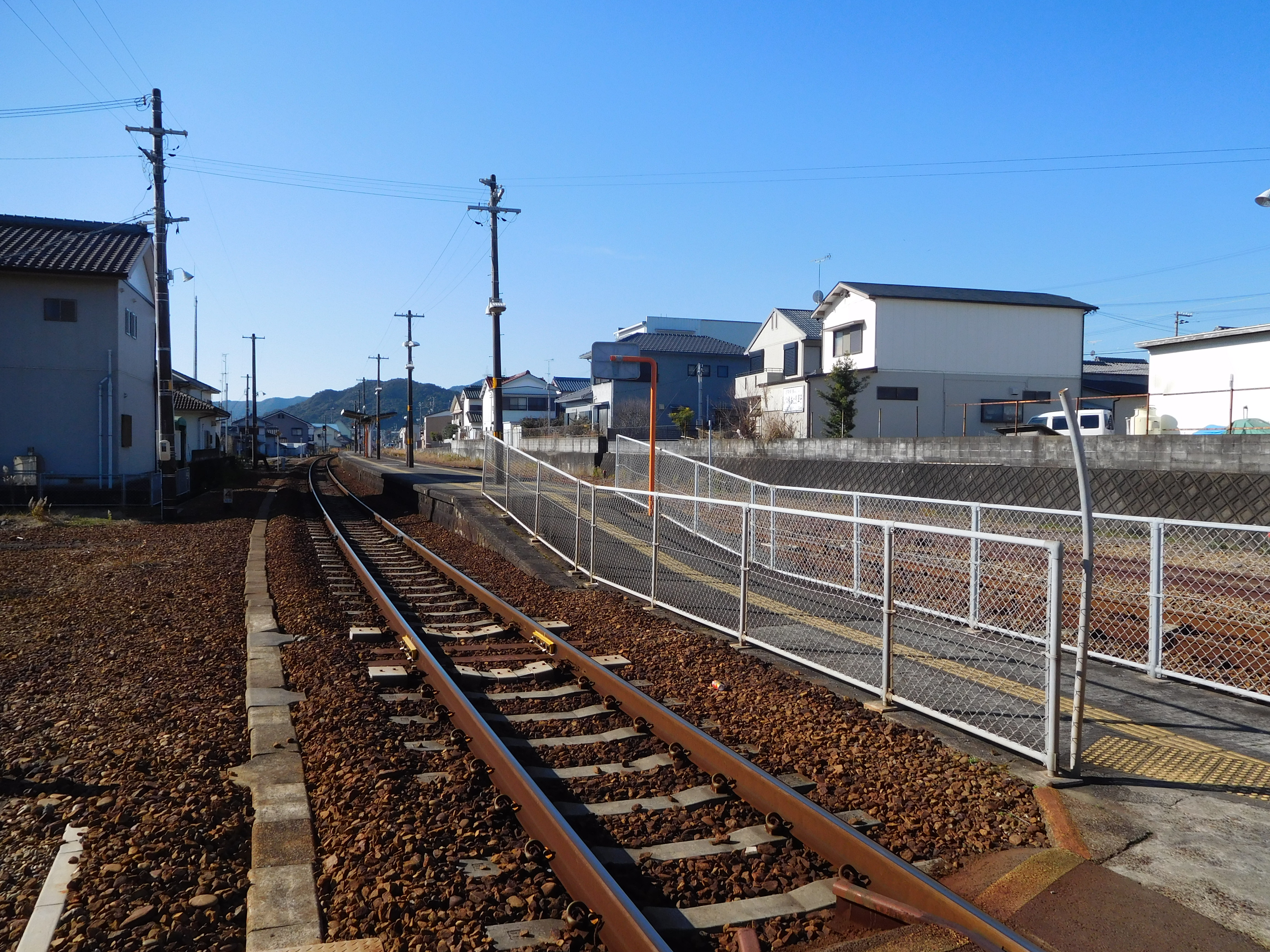 This is the platform of JR Atawa station, which is located on Mihama, Mie, Japan.